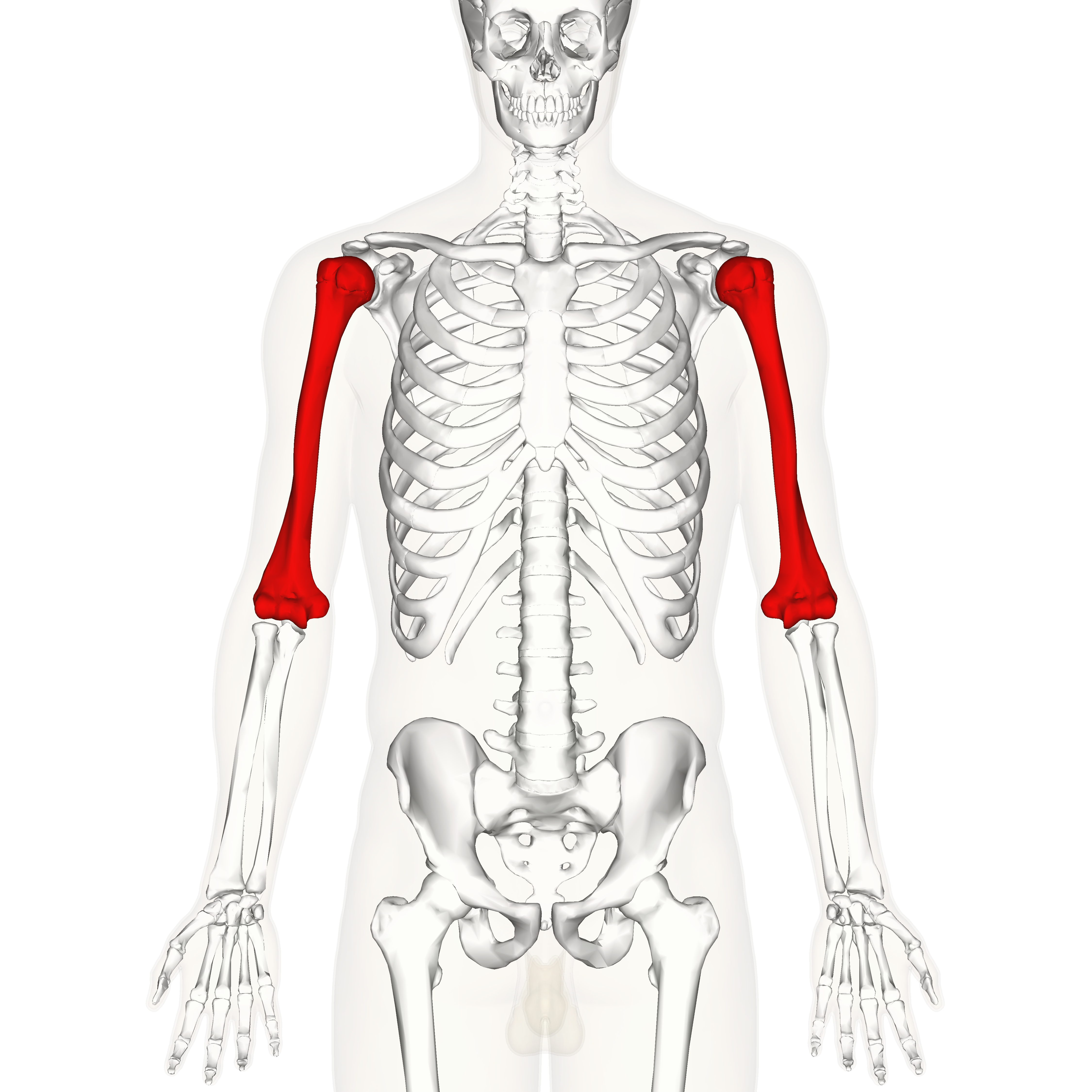 Humerus.